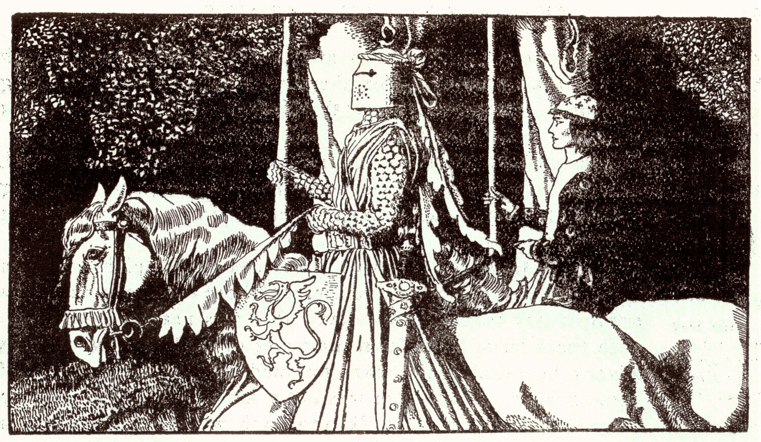 Howard Pyle illustration from the 1903 edition of The Story of King Arthur and His Knights scanned and archived at where it was marked as Public Domain.